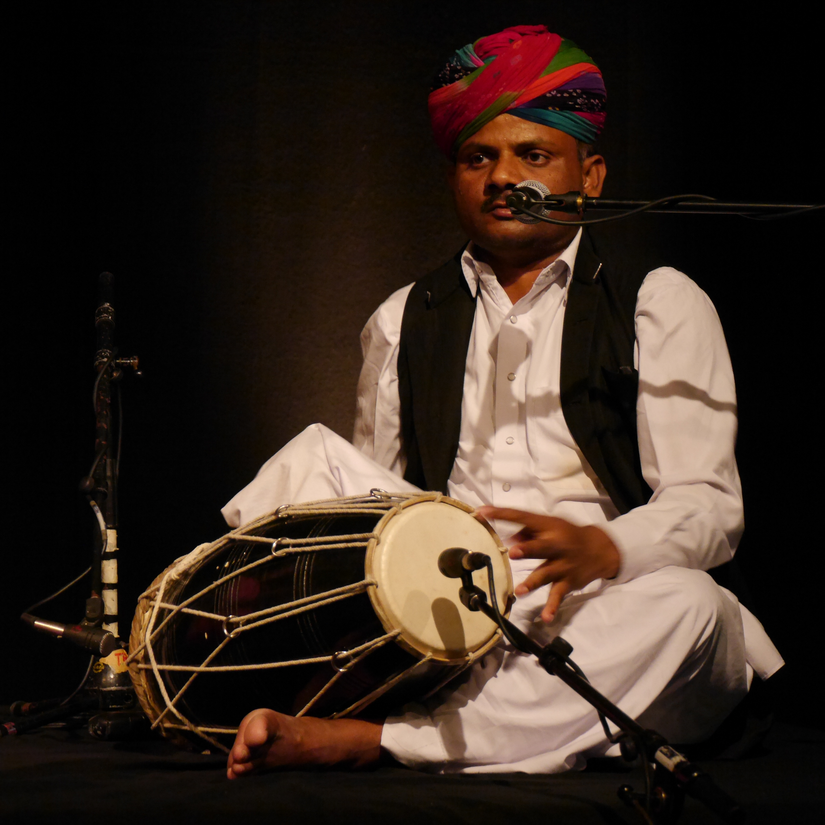 Dhol dholak is one of many ancient percussion instruments from the Indian subcontinent. There are dozens of different types of drums in the Indian culture.